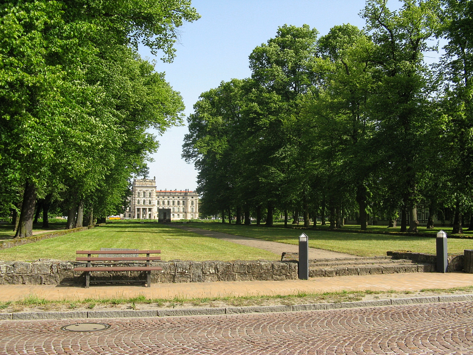 Memorial and grave field for 200 inmates of Wöbbelin concentration camp, behind: Ludwigslust castle, above: federal road Bundesstraße 5, Ludwigslust, Germany